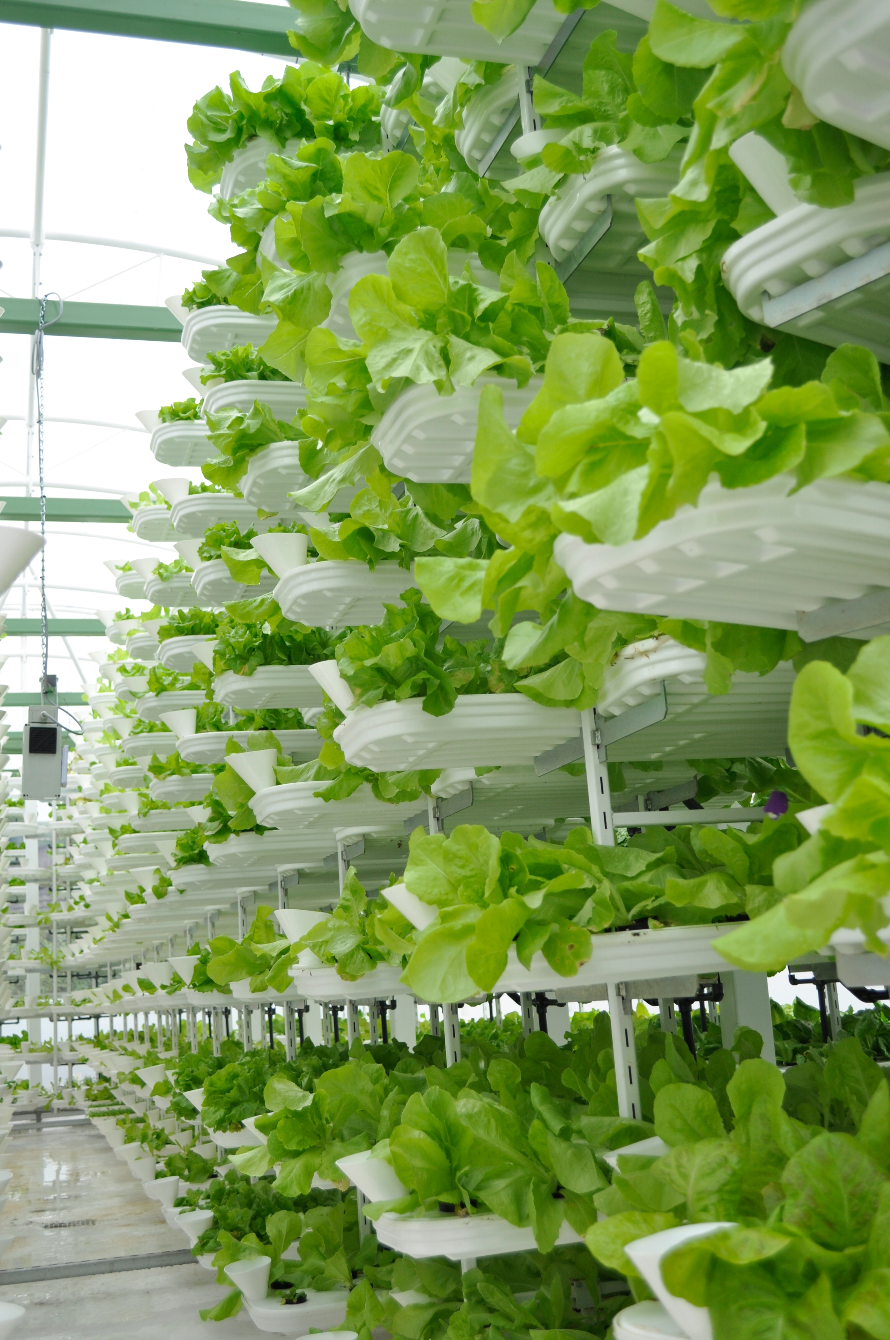 VertiCrop System